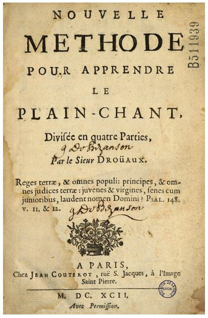 Title page of Estienne Drouaux's Nouvelle méthode (Paris, 1692). Lyon BM.